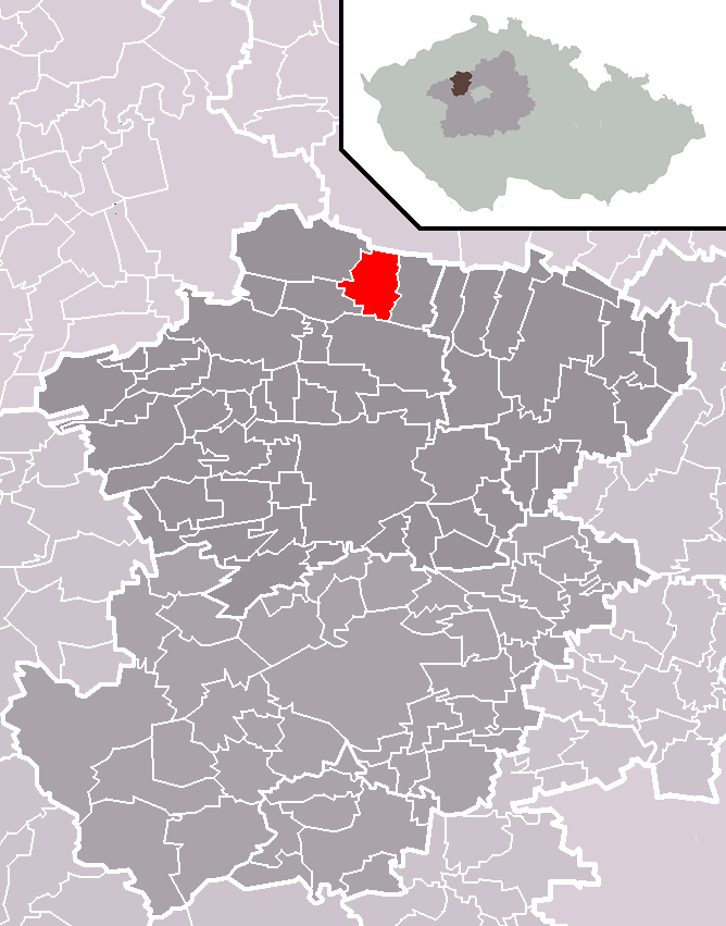 Location of Jarpice municipality within Kladno District and administrative area of Slaný as a Municipality with Extended Competence.